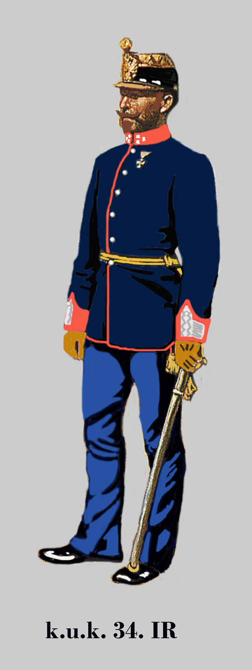 Captain of the Austria-Hungarian (k.u.k.). 34th hungarian Infantry Regiment in Parade dress 1914